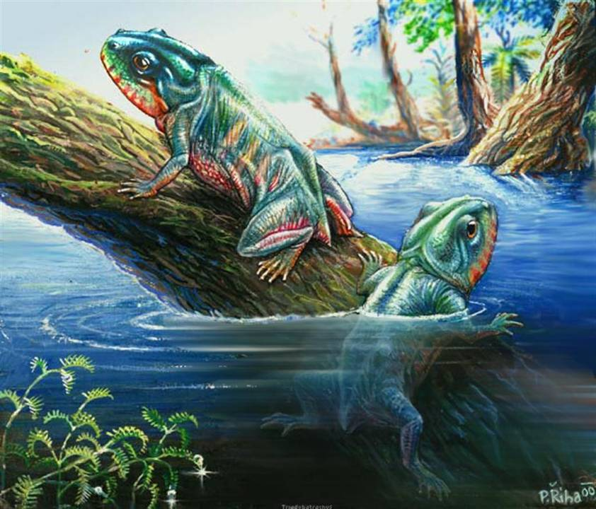 Artist's rendering of Triadobatrachus massinoti.